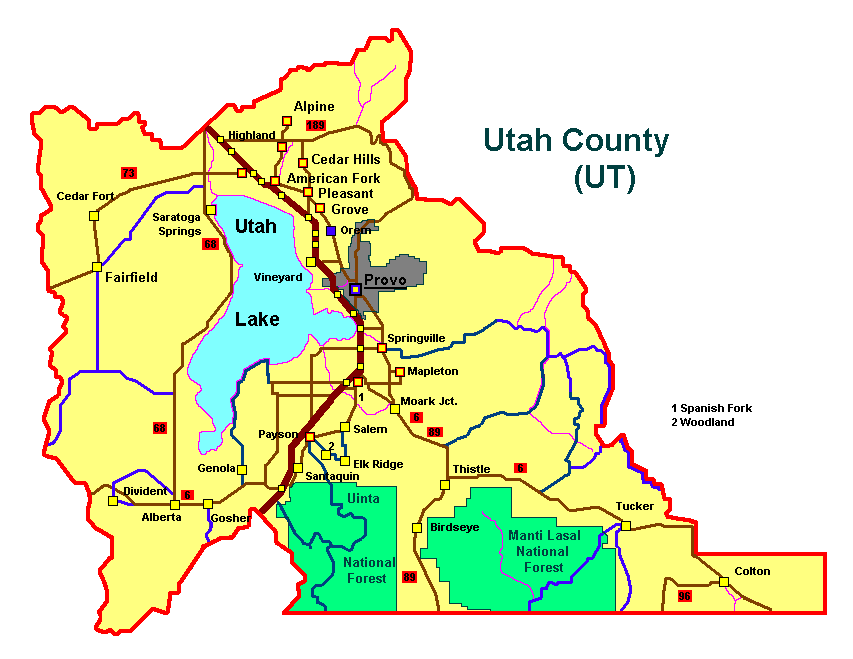 utah County (UT)Details, selfmade graphic by R.Blauert (dk4hb)